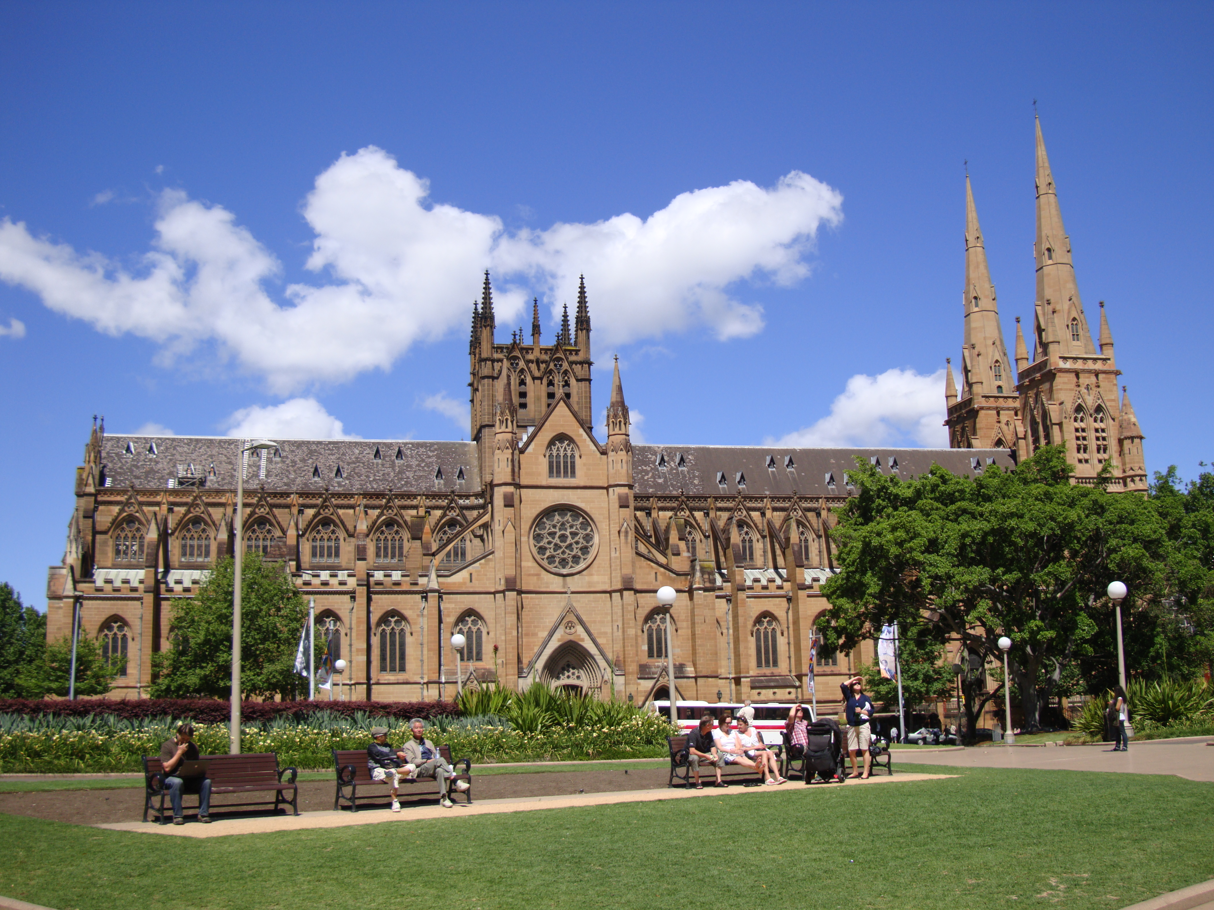 Photograph of St Mary's Cathedral, Sydney, Australia